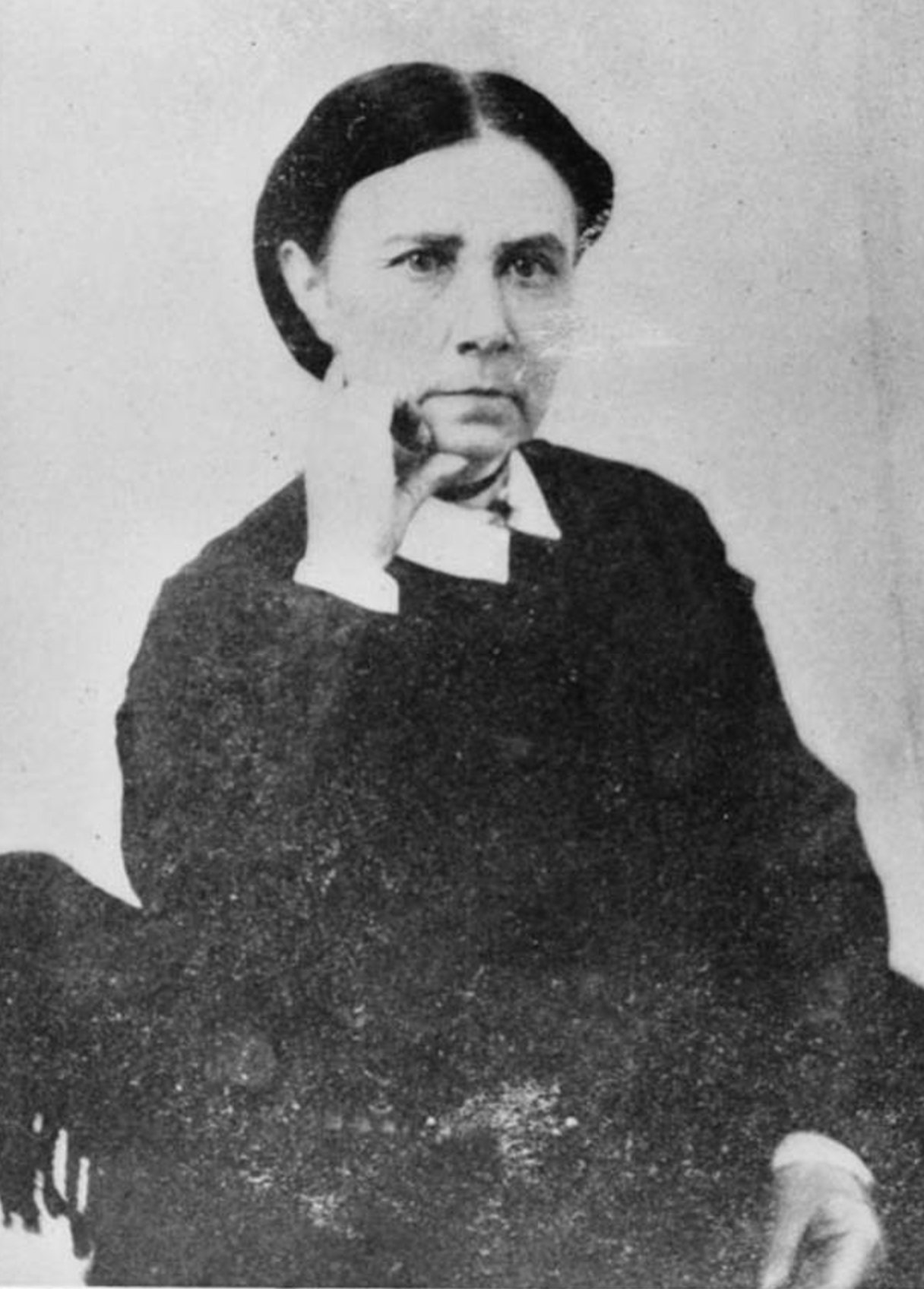 Photograph of Miss Mary Gay, Decatur, DeKalb County, Georgia, 1890s